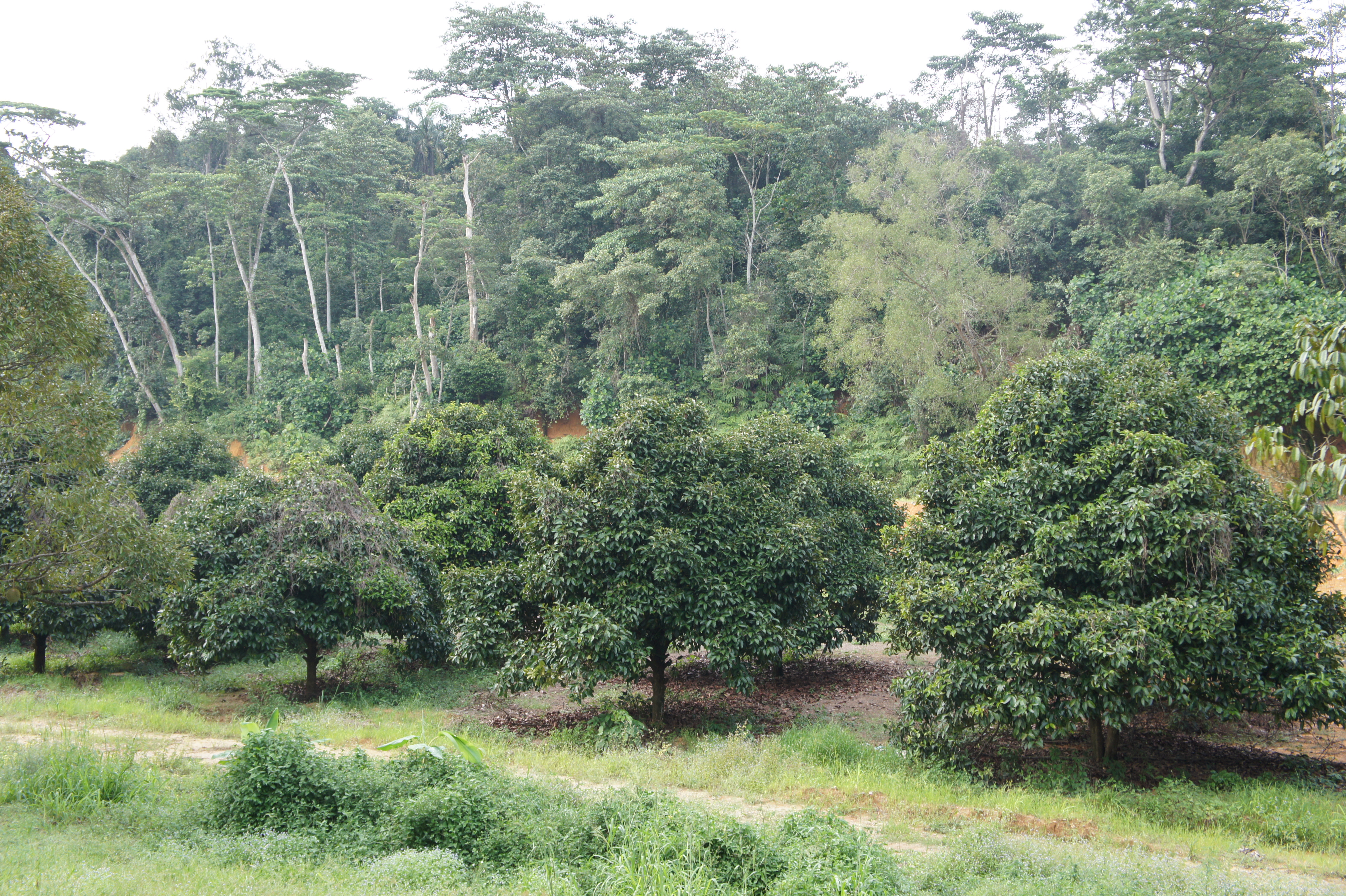 Field gene bank of Garcinia mangostana in Serdang, Selangor, Malaysia.